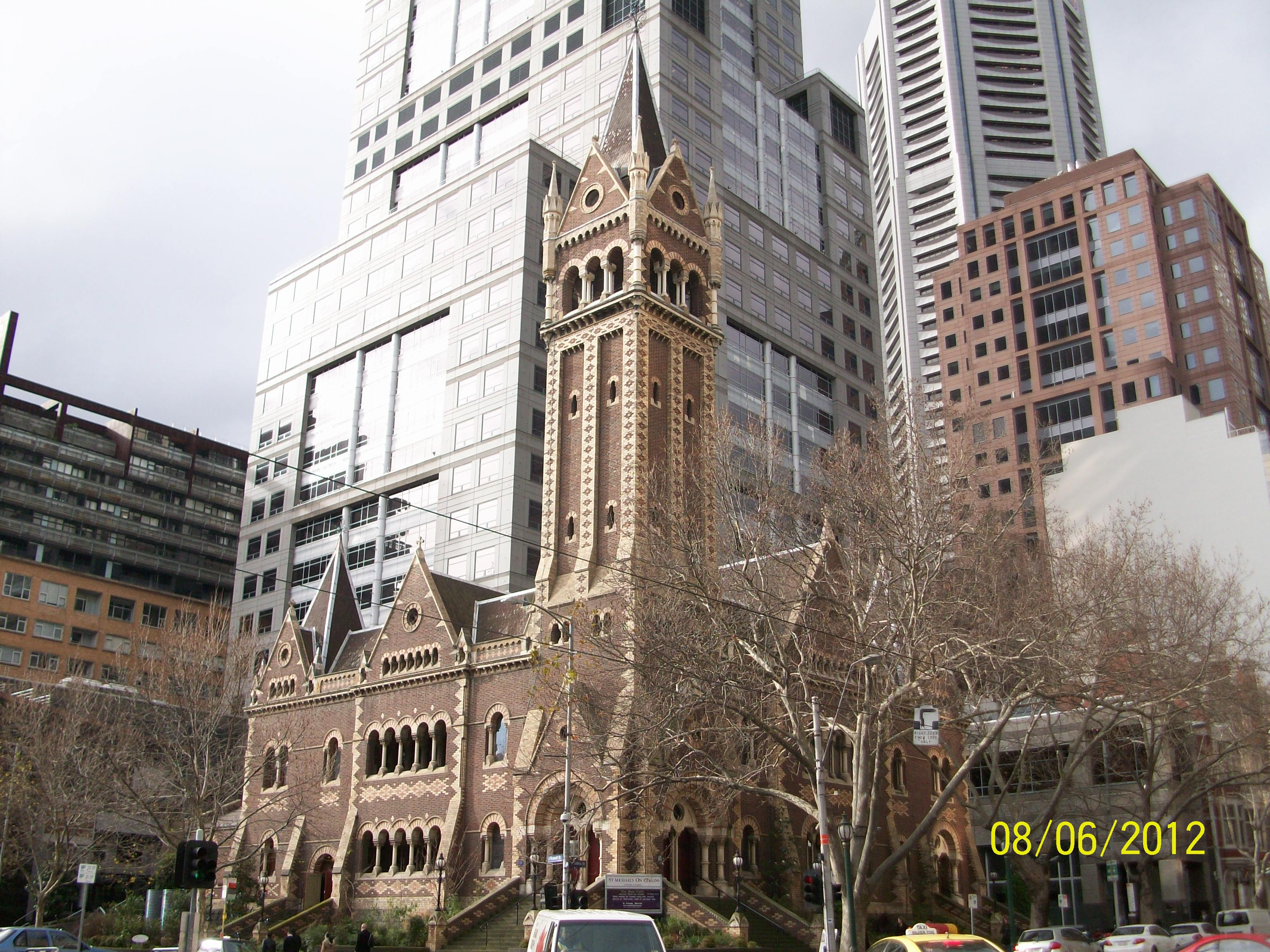 St. Michael's Uniting Church, Melbourne